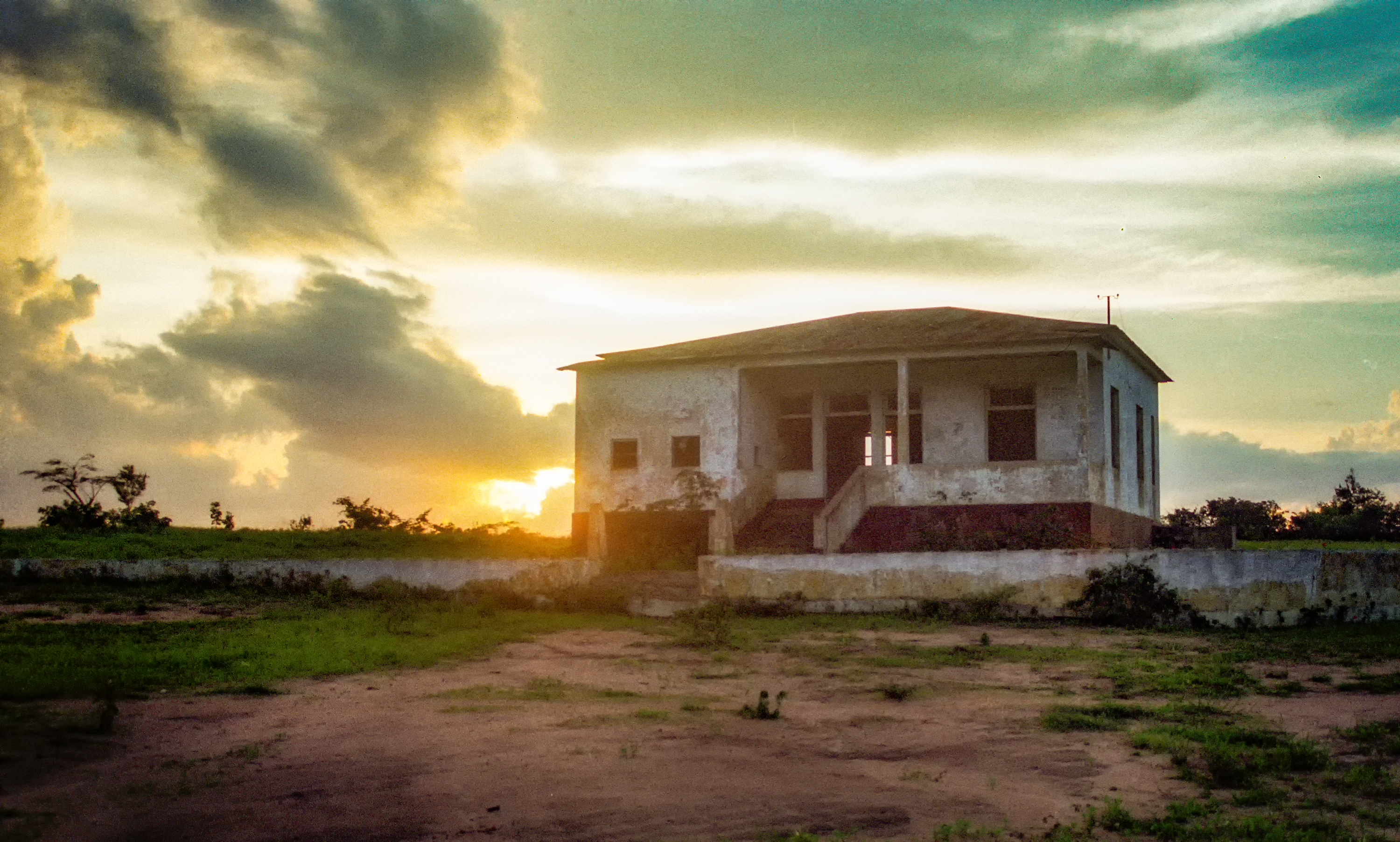 Site of the Massacre of Mueda on June 16, 1960, when Portuguese troops fired on a demonstration claiming independence from Portugal, and threw some demonstrators into a ravine.[1] Resentment generated by these events led ultimately to independentist guerrilla FRELIMO gaining needed momentum in the outset of the Mozambican War of Independence (1964-1975). Image was taken with 35mm camera and scanned with Nikon Coolscan V ED.